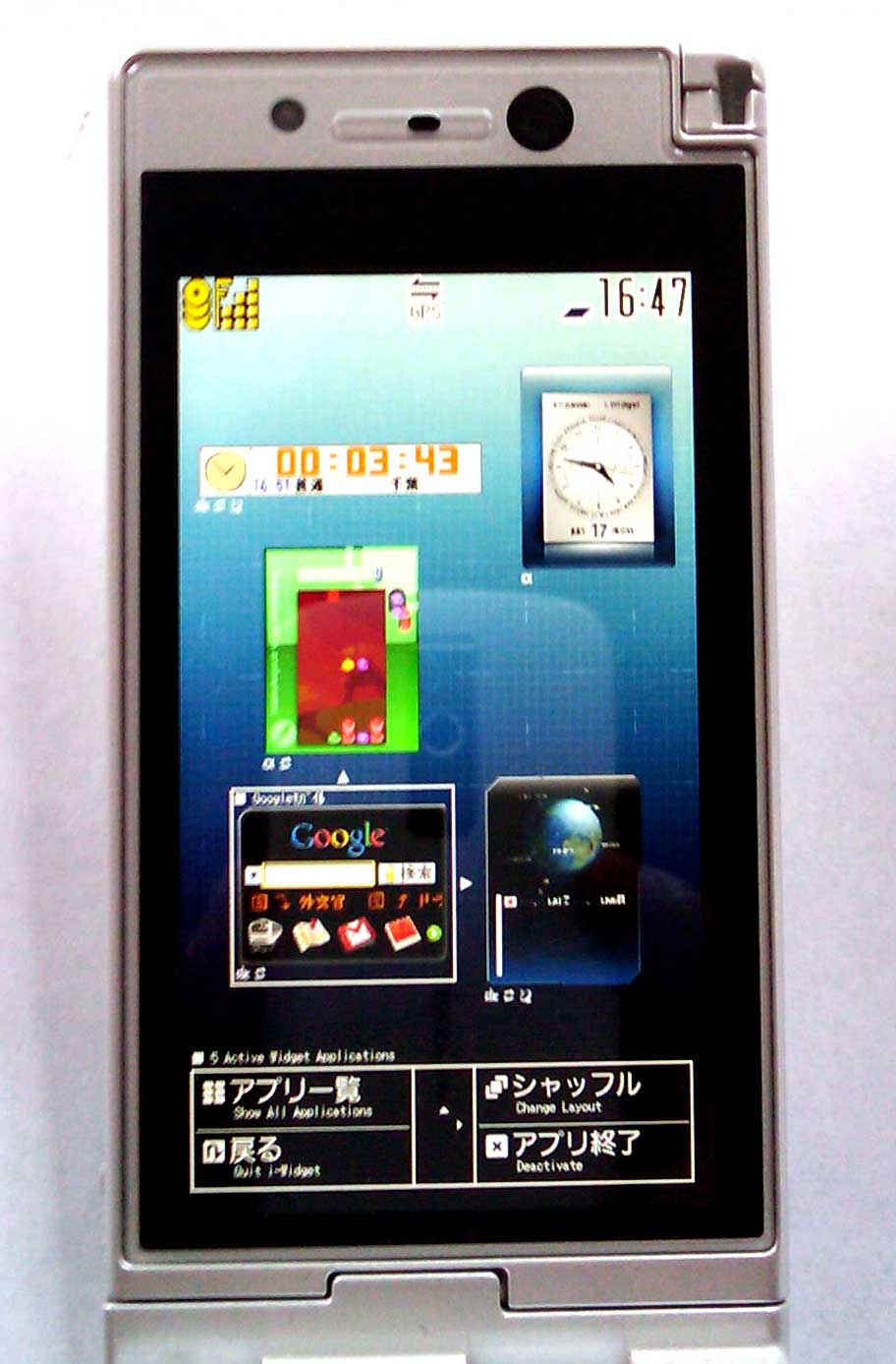 iWijet